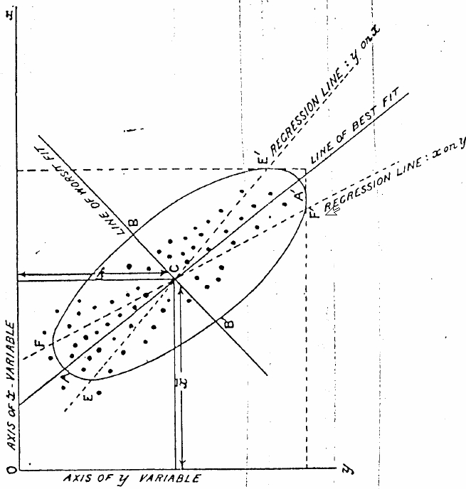 First highlight of a Principal Component, pusblished by Karl Pearson in 1901 in his article in the Philosophical Magazine: "On lines and planes of closest fit to systems of points in space". Pearson calls it here the "line of best fit", and illustrates how it differs from a regression analysis